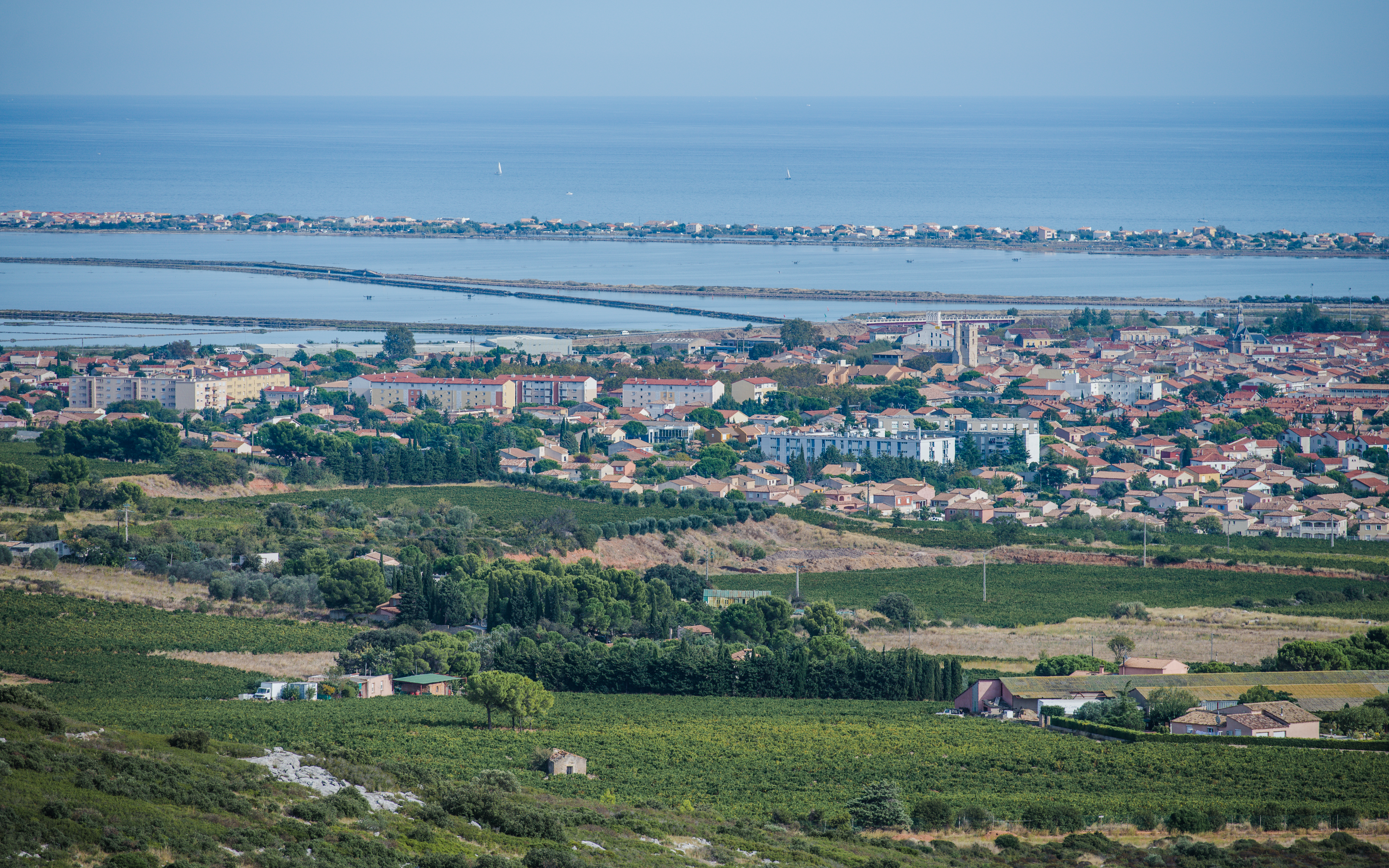 In foreground, the vineyard of Muscat de Frontignan (an appellation d'origine contrôlée), the town of Frontignan and in the background the Étang d'Ingril with the Canal du Rhône à Sète, Frontignan-Plage and the Mediterranean Sea. Frontignan, Hérault, France.